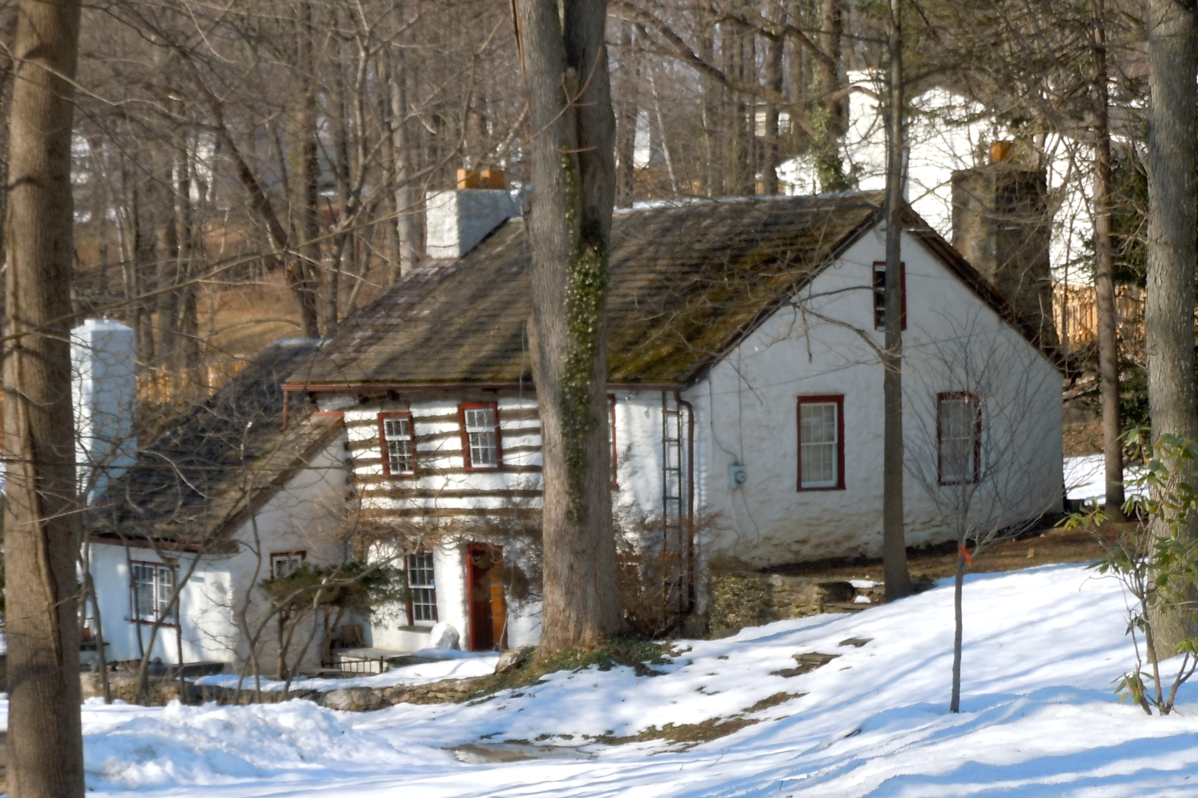 Wetherby-Hampton-Snyder-Wilson-Erdman Log House (aka the Wetherby et al House) on the NRHP since April 2, 1973 . Located at 251 Irish Road (north of Conestoga Road) in Tredyffrin Township (NE of Paoli), Chester County, Pennsylvania. No famous people lived here, but it is an odd mixture of log cabin styles. Stone base is unusual, as are stone additions. Swedish chimney set-up. Round logs with saddle-notches. North German herring-bone pattern of chinking with rocks.